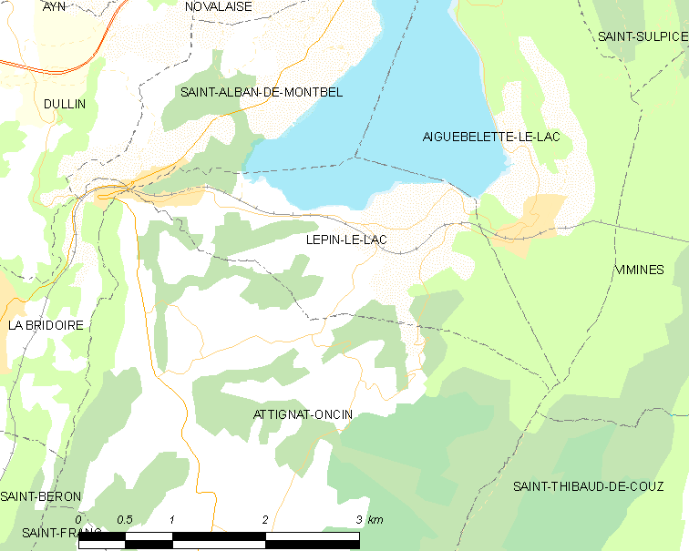 Map of French municipality